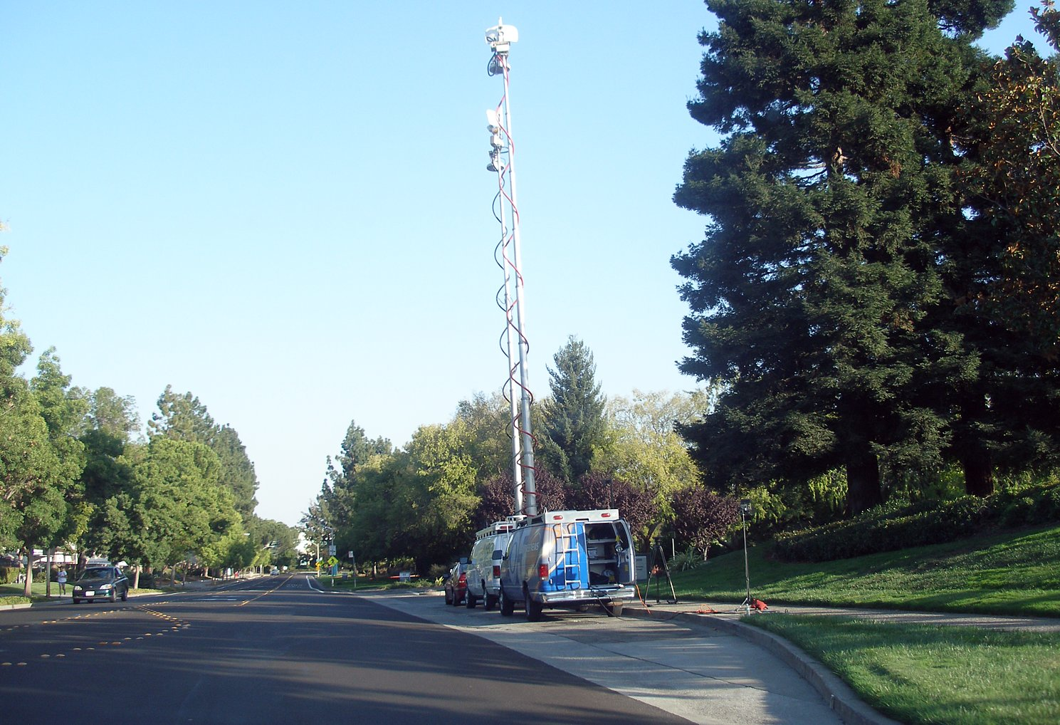 Mobile broadcasting units parked on Hanover Street in front of Hewlett-Packard's headquarters to cover Mark Hurd's press conference on September 22, 2006 in which he announced that he would assume the position of chairman in addition to his current duties as CEO. The vehicle in the foreground with the large 5 numeral on its side is from KPIX-TV Channel 5.